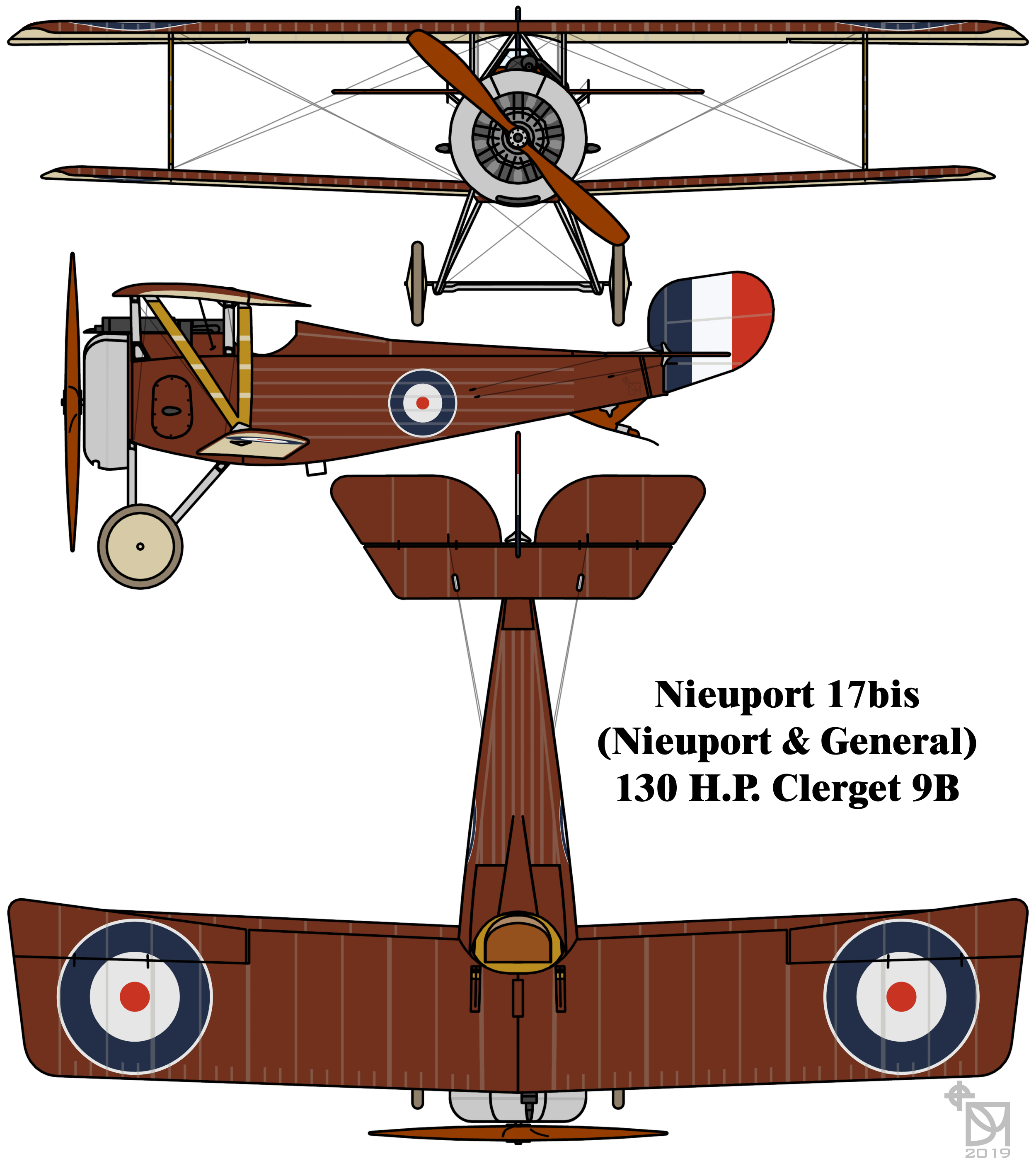 Nieuport 17bis (Nieuport & General), a French WW1 sesquiplane built under licence in the UK, and operated by the Royal Naval Air Service